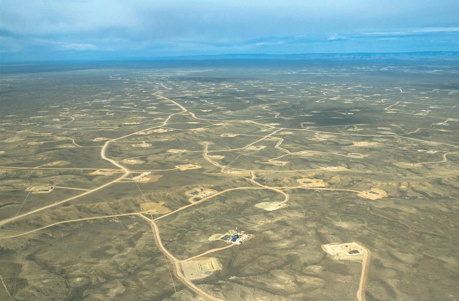 Shows the potential surface impact of vertically drilled wells (Wyoming)